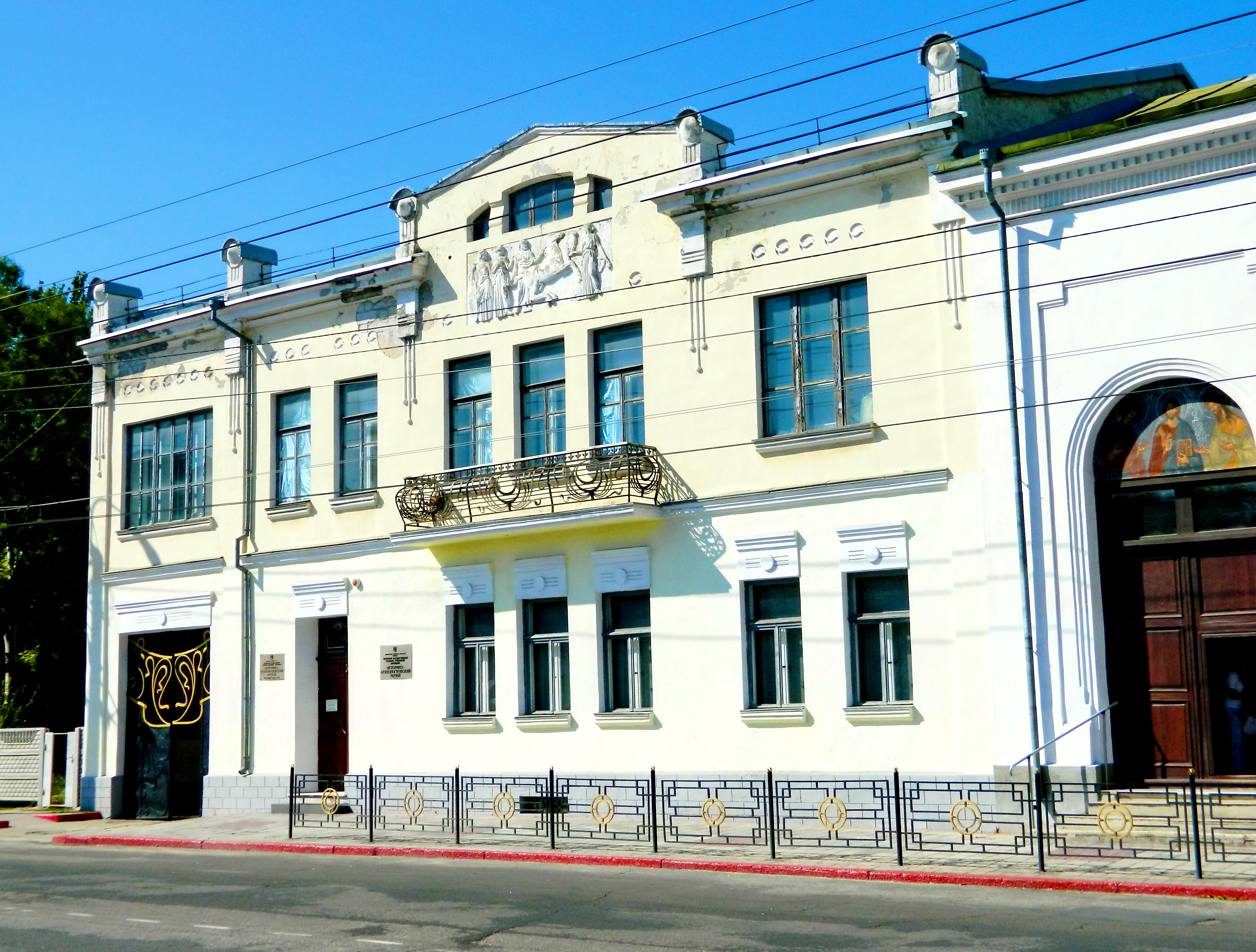 Kerch Historical and Archeological Museum